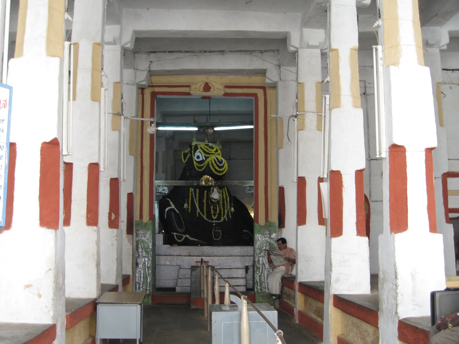 Bull Temple, a nearly 500 year old temple in Bengaluru with one of the biggest Nandi idols in the world.